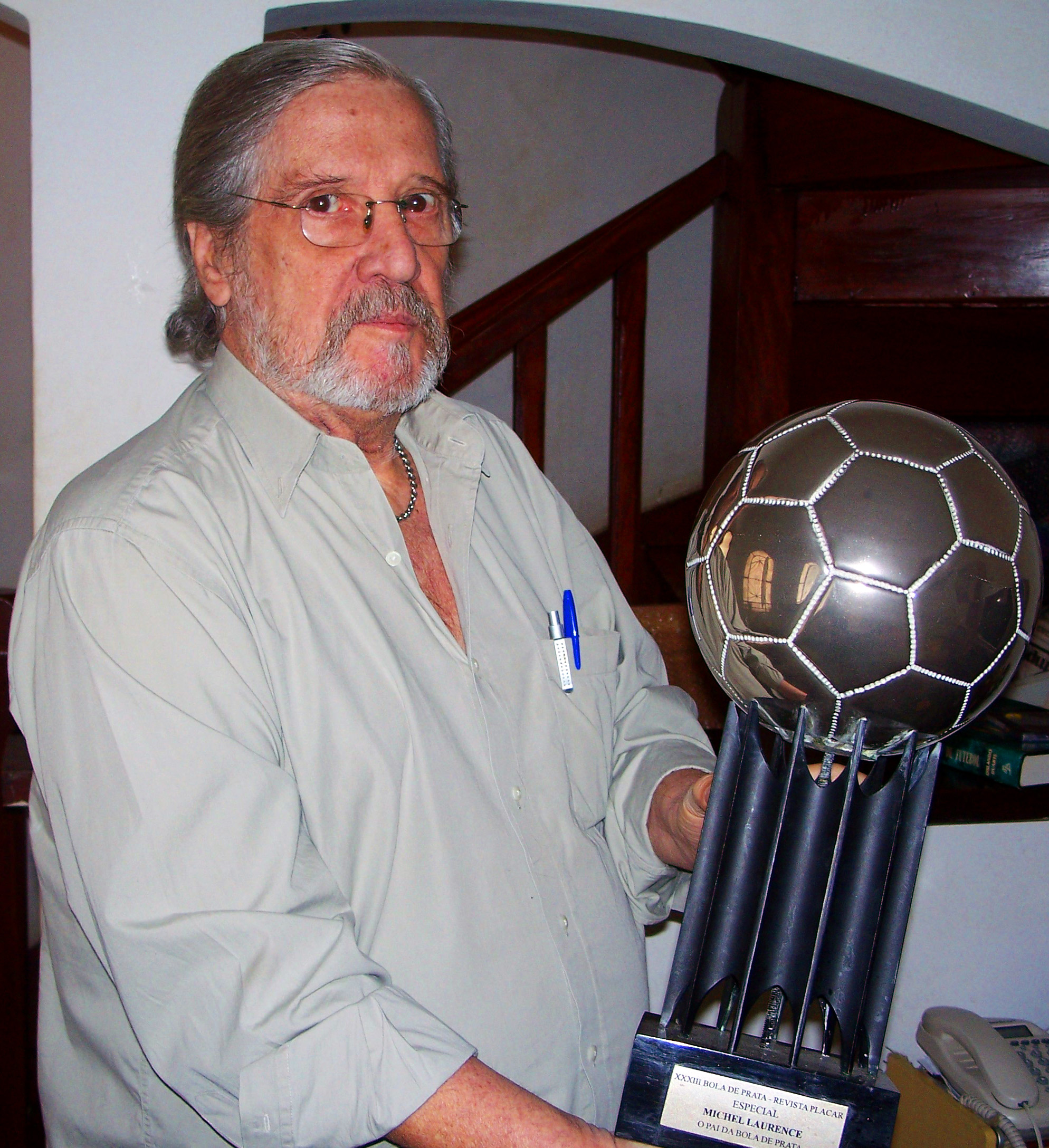 Michel Laurence, one of the creators of the Bola de Prata trophy, given by Placar magazine to the best players of Brazilian League every year.